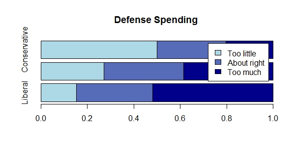 Example stacked bar plot of opinion on defense spending by political party (fabricated data)